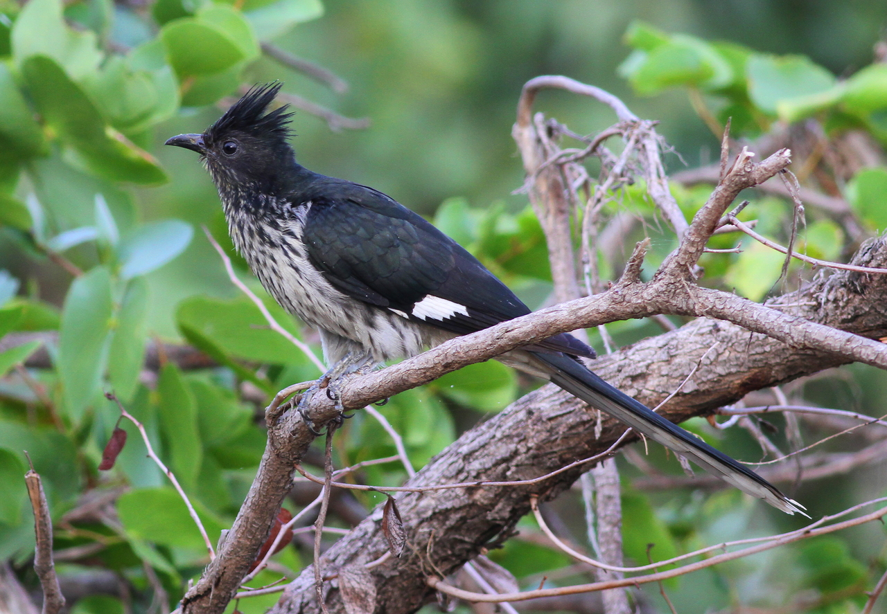 Levaillant's Cuckoo, or African Striped Cuckoo, Clamator levaillantii, at Shingwedzi, Kruger Park